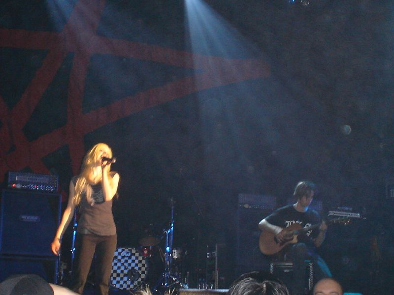 Avril Lavigne in Rio de Janeiro, Brazil with the Bonez Tour